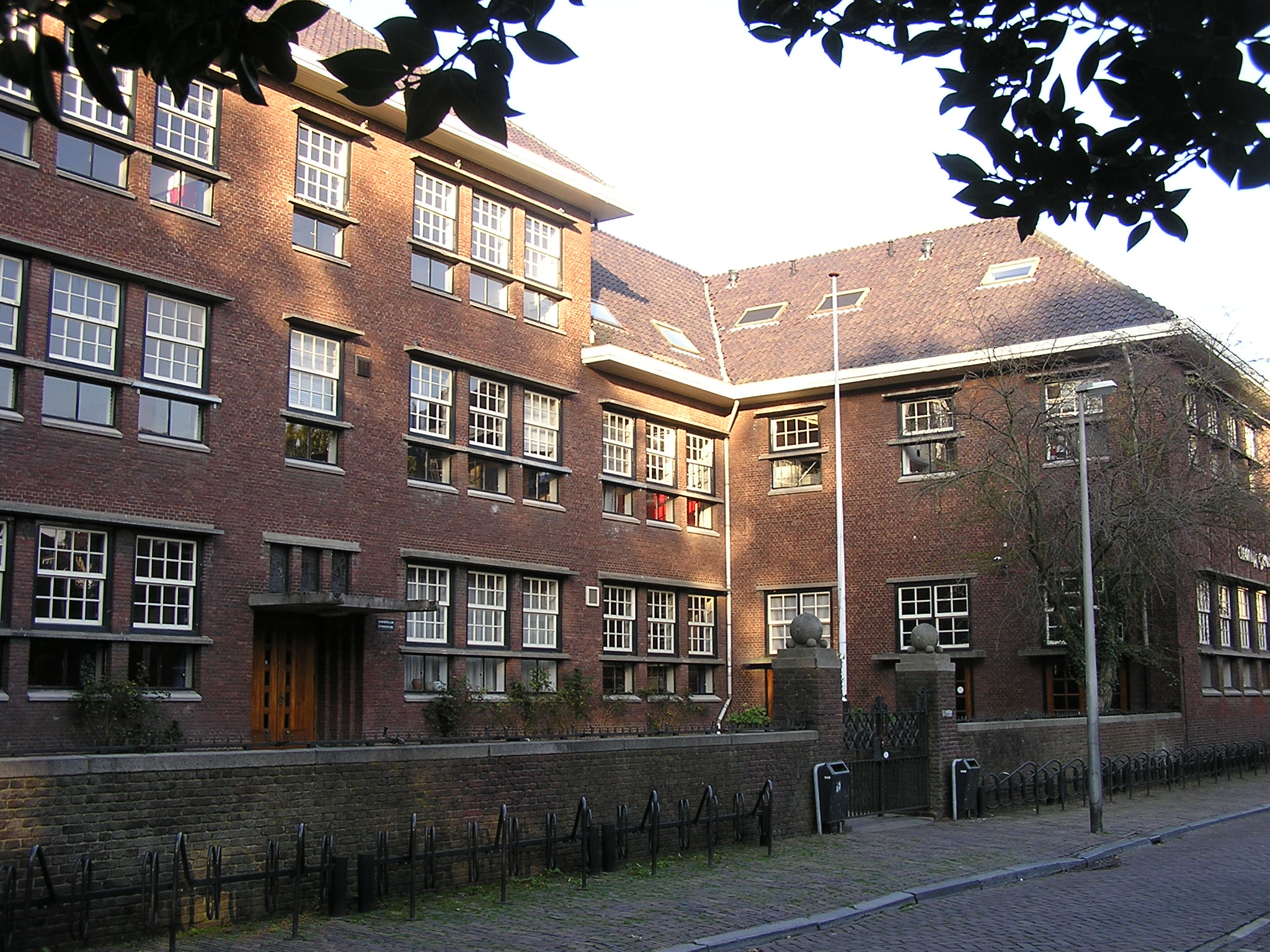 Photo of a Dutch school